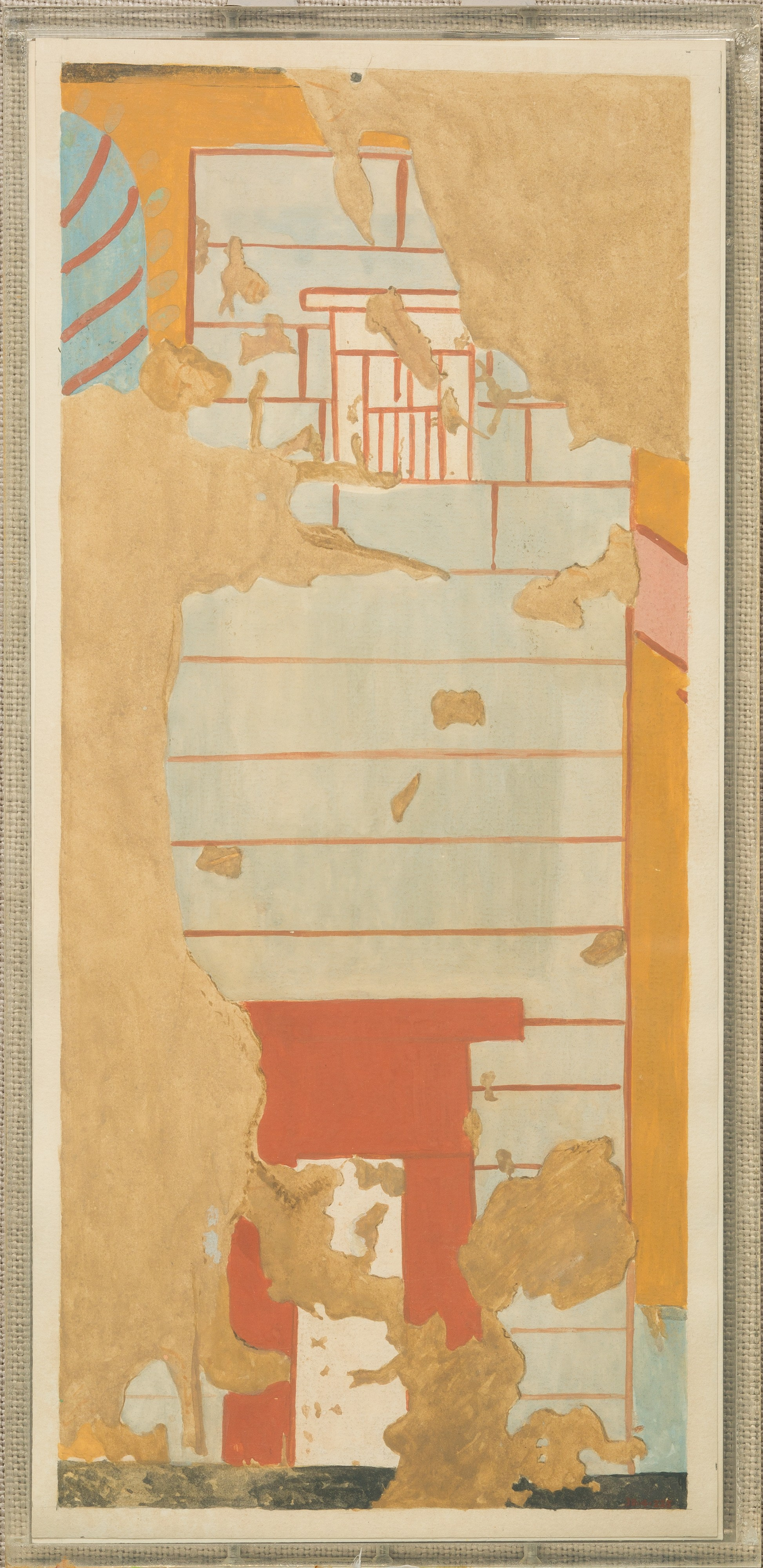 Facsimile, Djehutynefer (TT 80), house